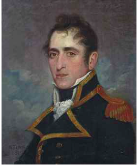 Captain Frederick Hickey R.N. (1775-1839) by Gilbert Stuart